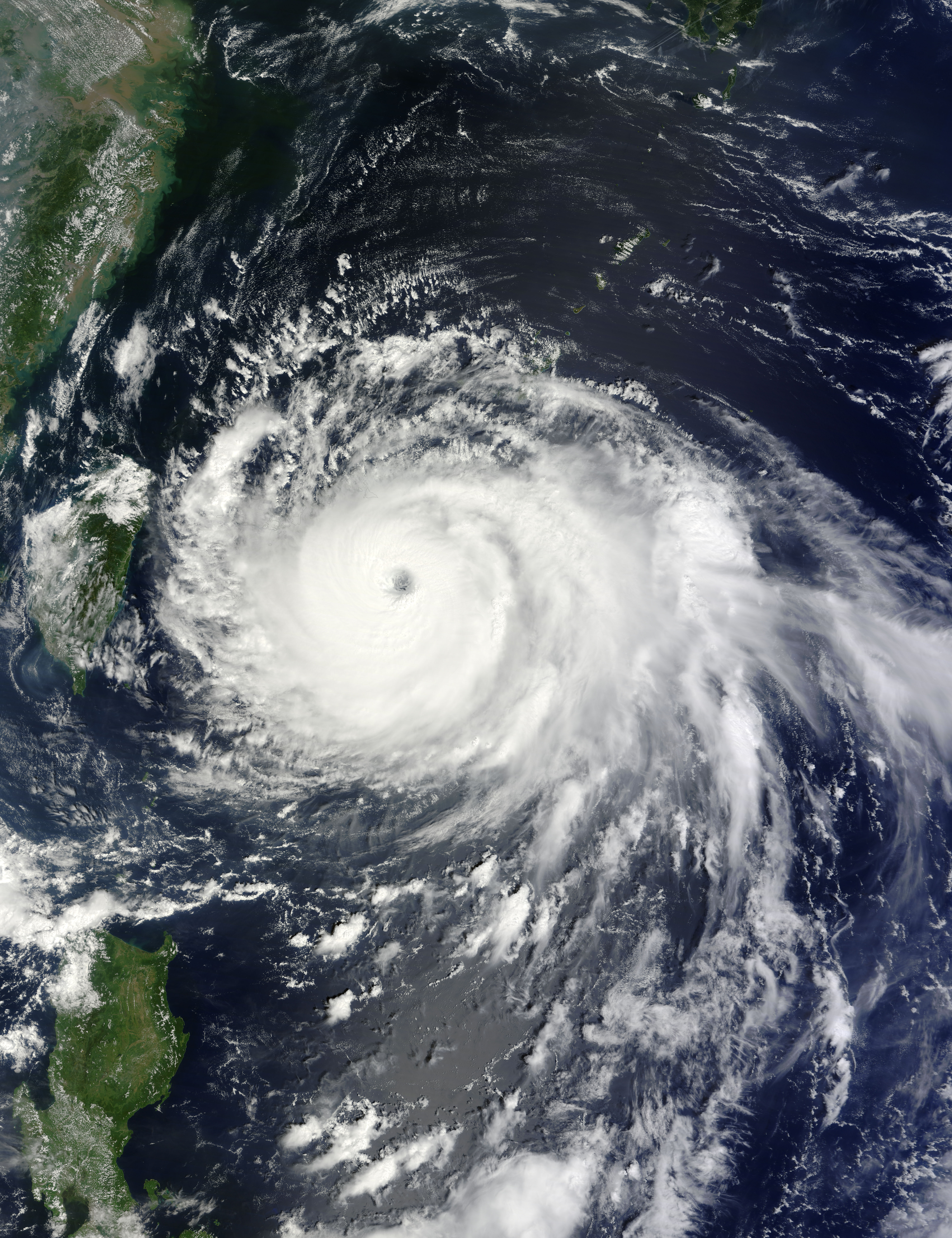 Typhoon Fanapi.